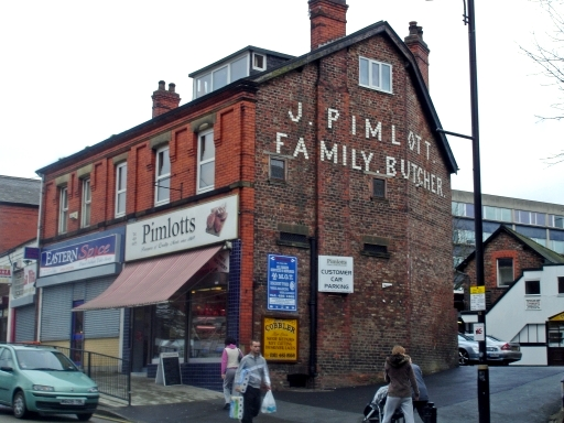 Traditional family butcher, Cheadle Hulme